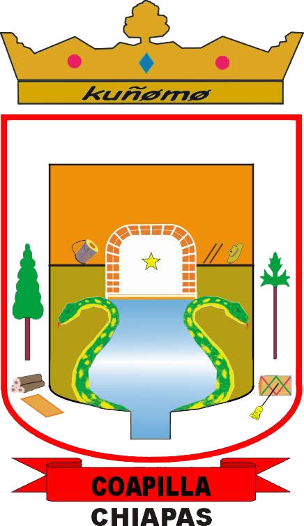 Escudo de Coapilla